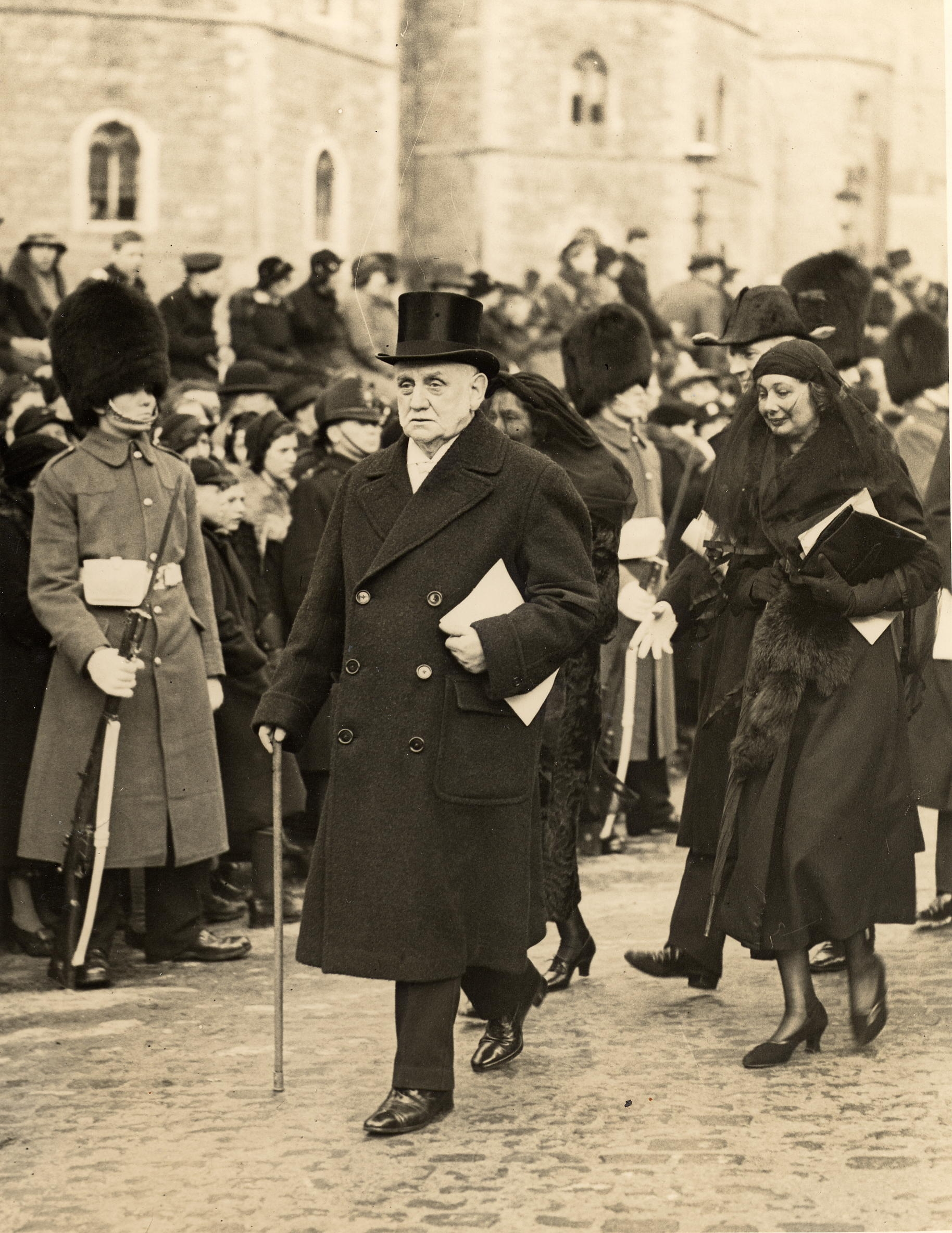 George Lansbury (1859-1940), politician, at the funeral of King George V, St. George's Chapel, Windsor. Lansbury was Labour MP for Bromley and Bow 1910-1912 and 1922-1940, and leader of the Labour Party 1931-1935. He was a major supporter of equal rights and votes for women and led the Poplar Rates Rebellion in 1921 whilst mayor of Poplar. IMAGELIBRARY/1362 Persistent URL